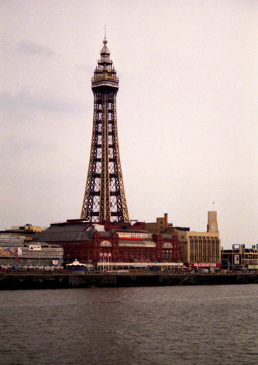 Blackpool Tower